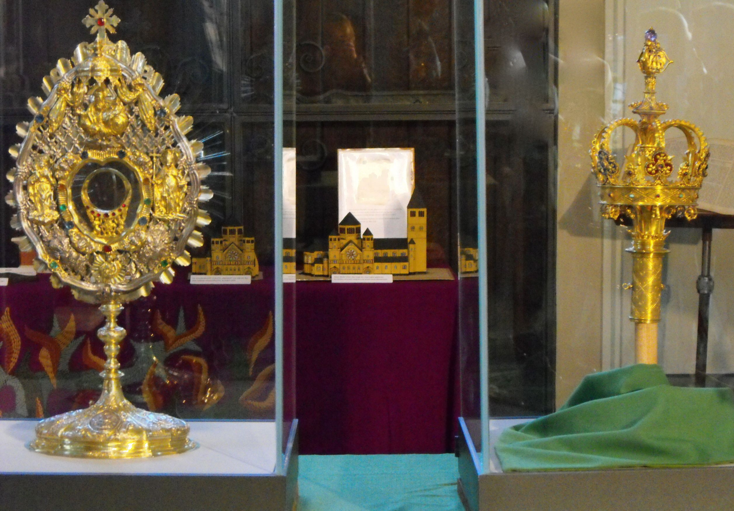 Kirchenschätze von Herz Jesu: Monstranz (li) und Marienkrone (re)